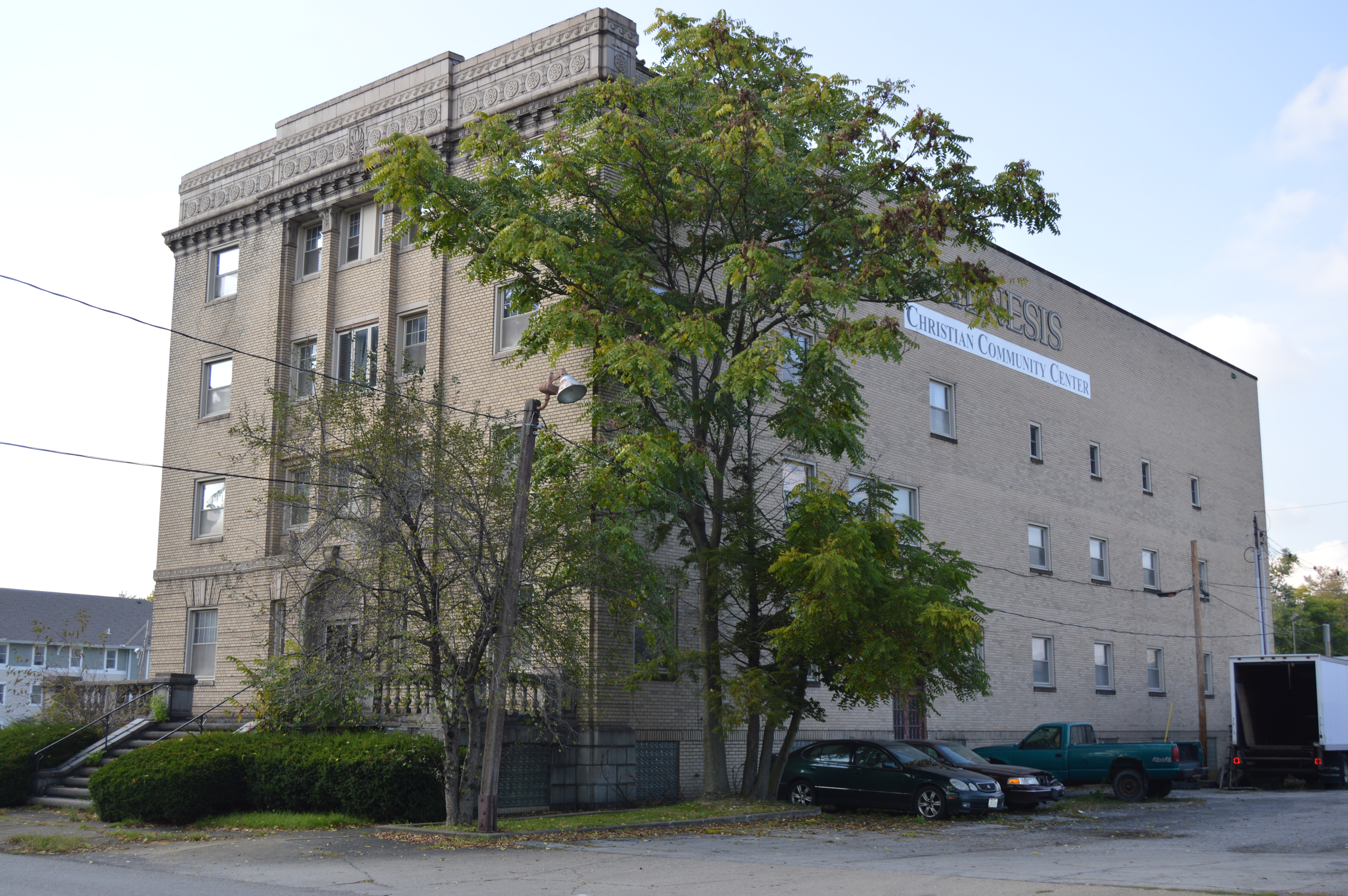 Front and eastern side of the Niles Masonic Temple, located at 22 W. Church Street in Niles, Ohio, United States. It is listed on the National Register of Historic Places.